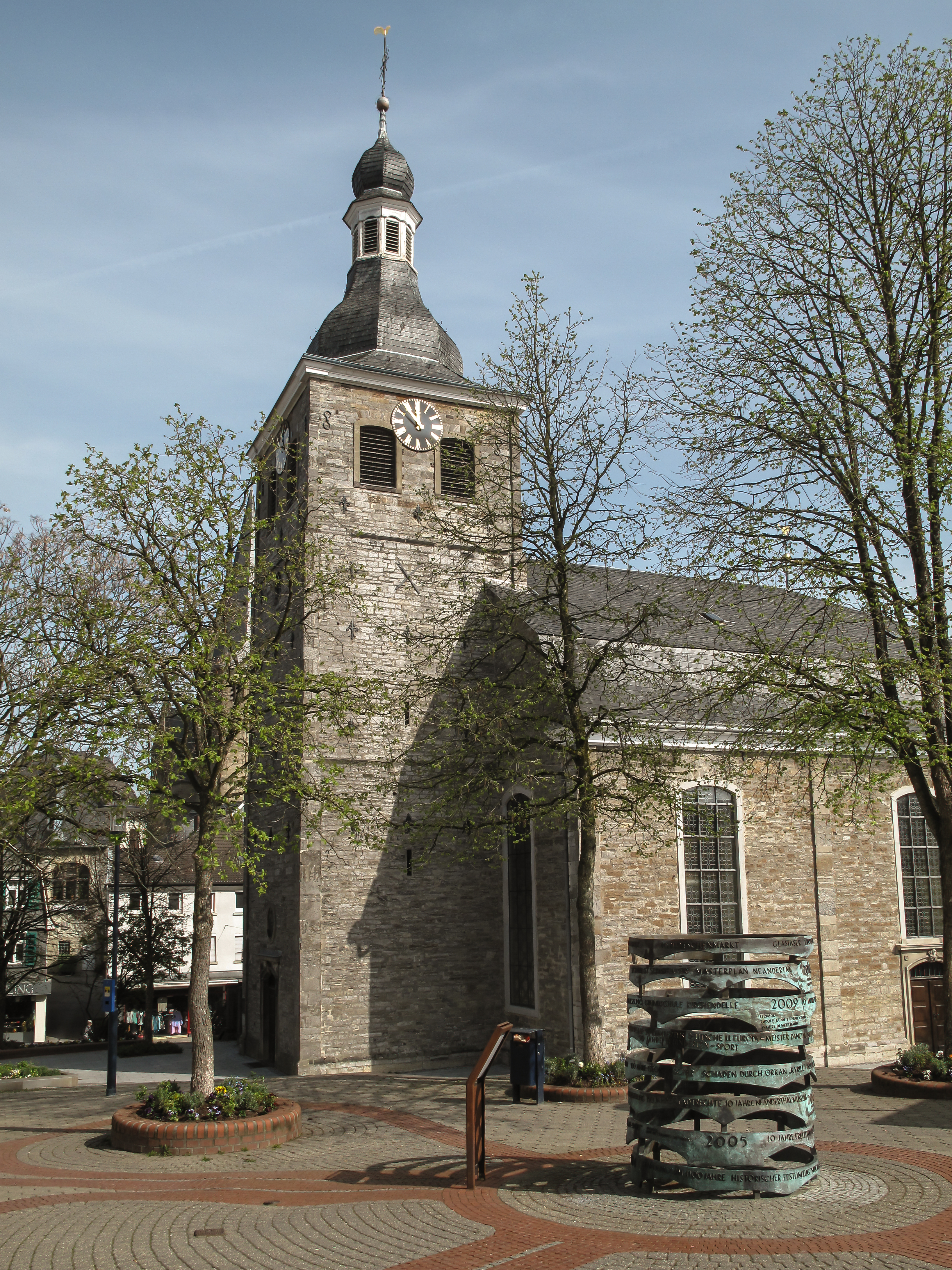 Mettmann, reformed church This is a photograph of an architectural monument.